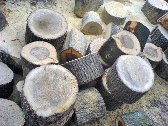 Woods